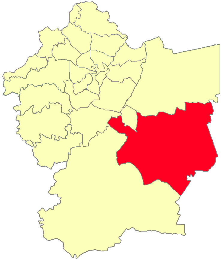 Amman districts